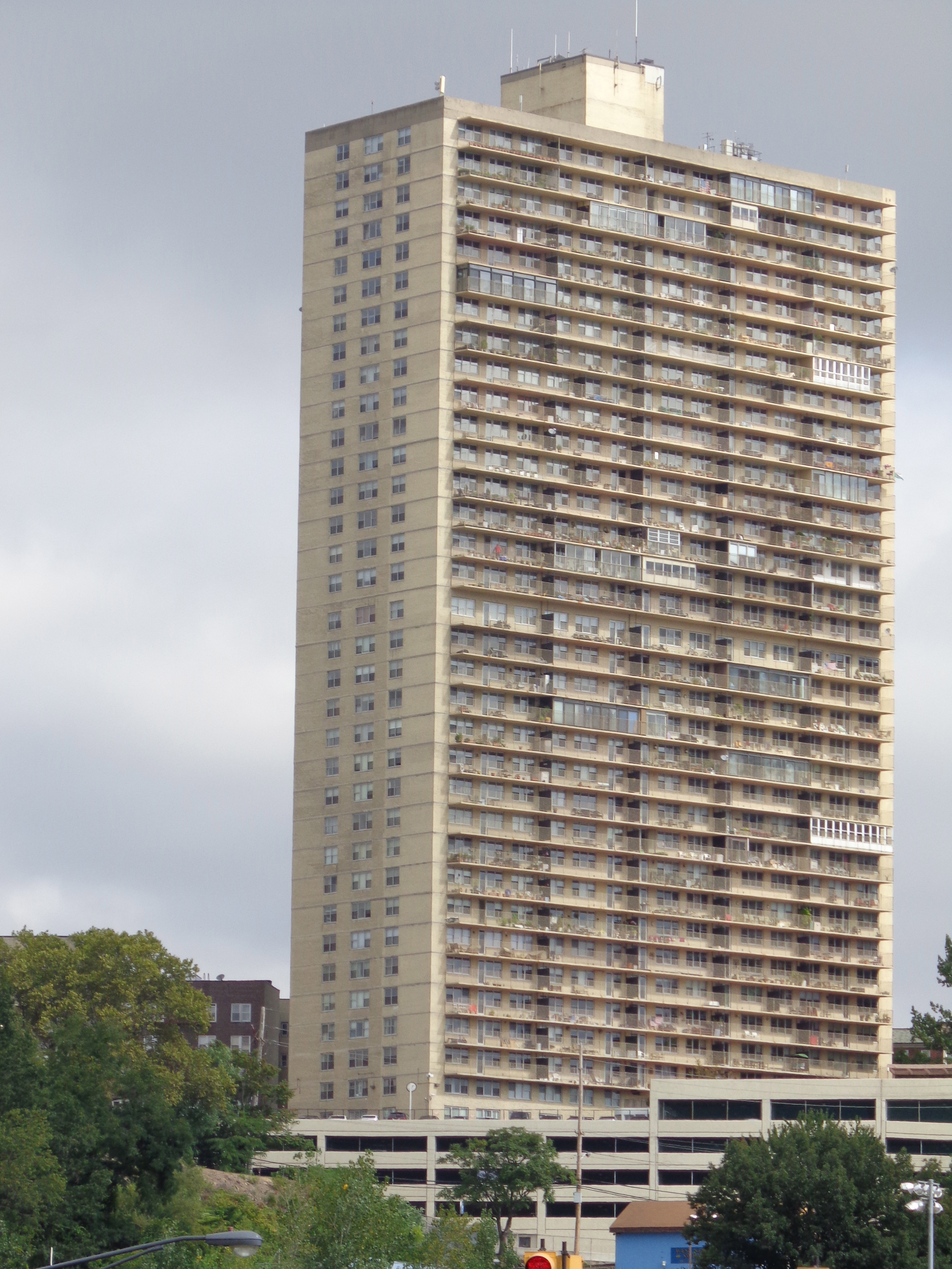 Riveria Towers (highrise) 6040 BoulevardEast West New York